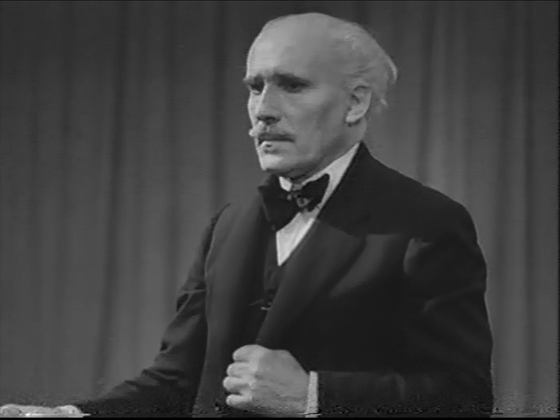 Arturo Toscanini from "Hymn of the Nations". And playing the "La forza del destino" Overture